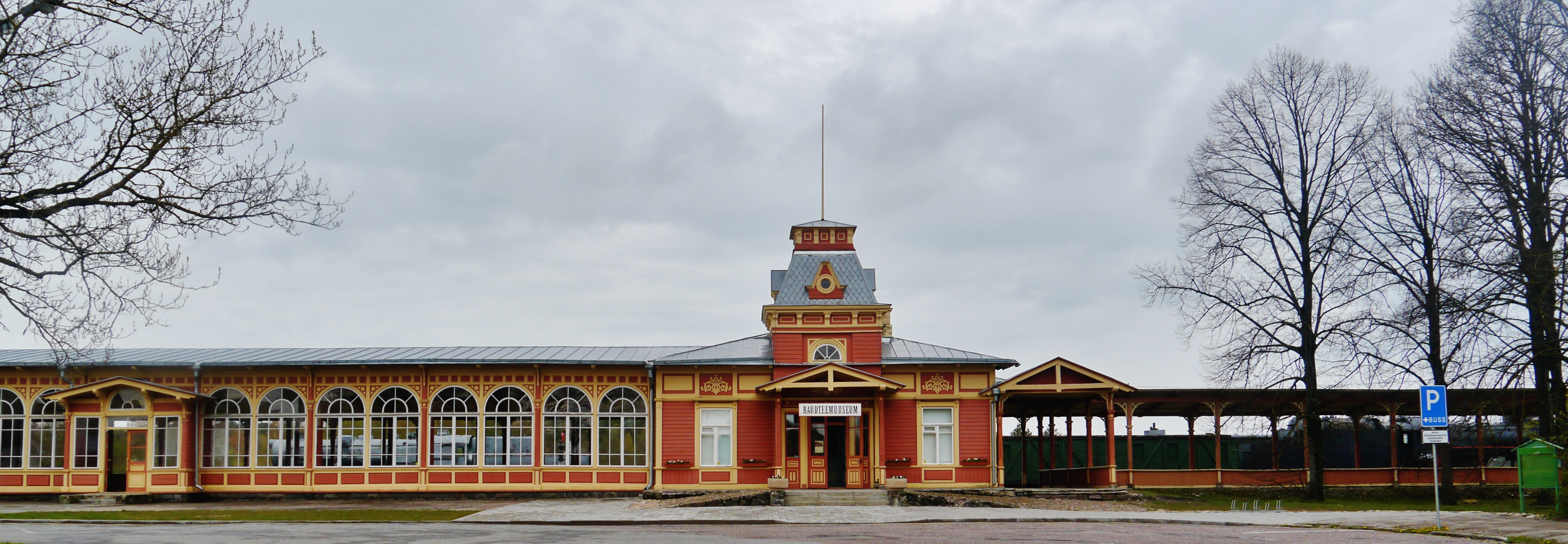 Tsar's Railway Station, Haapsalu, Estonia